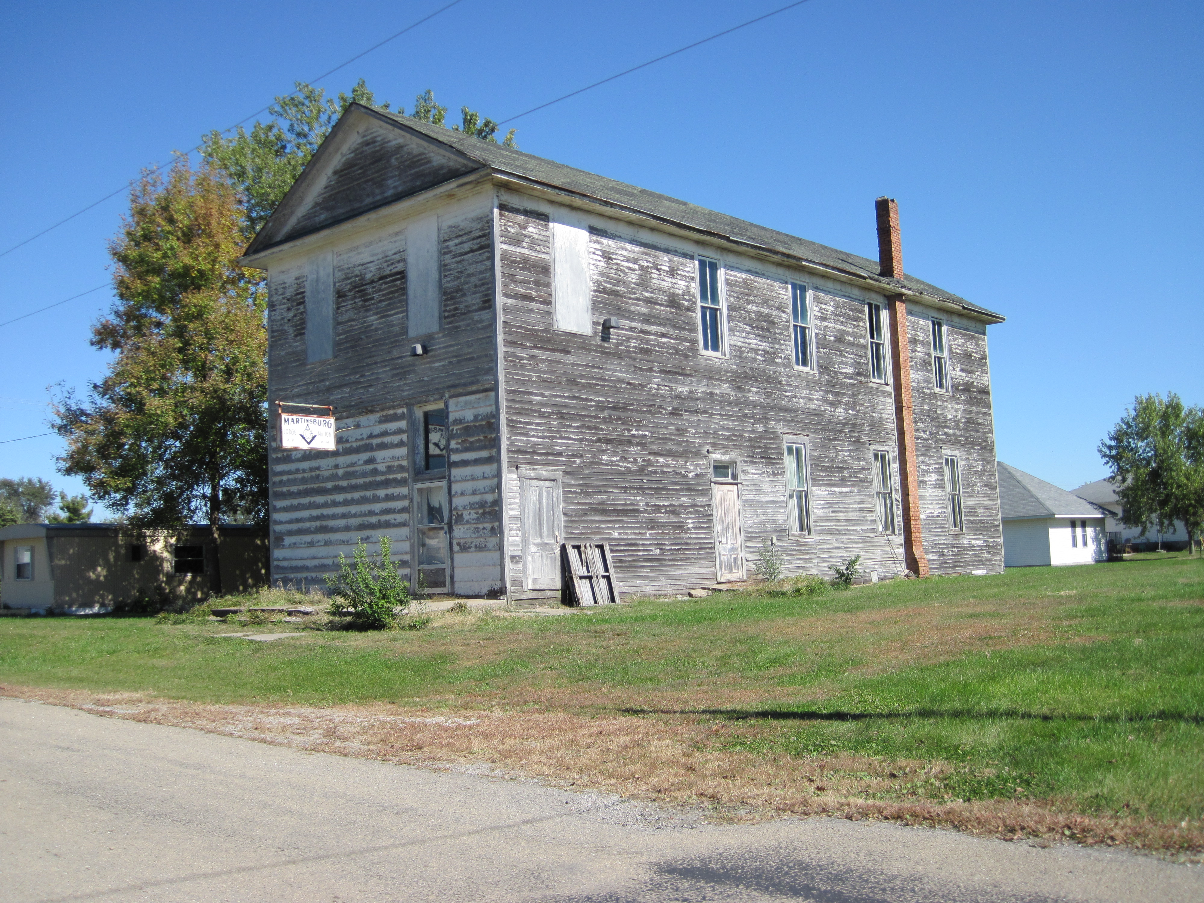 Martinsburg abandoned Masons lodge